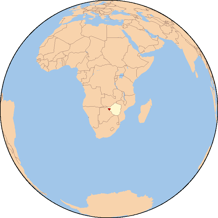 Created with GMT and GIMP for Hwange National Park.